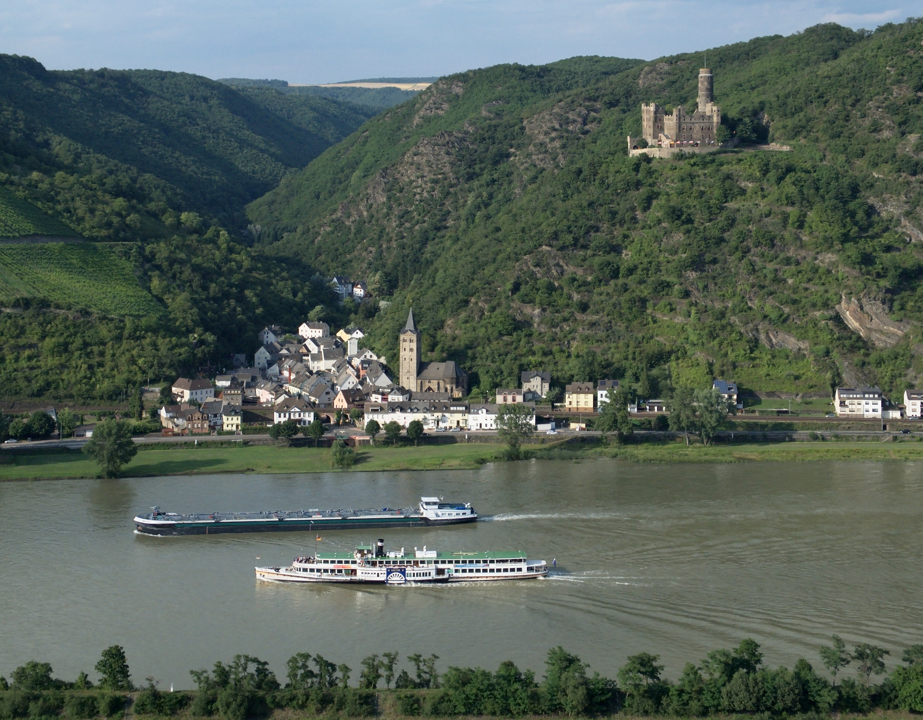 Wellmich with Maus castle near Sankt Goarshausen. UNESCO World Heritage Site Upper Middle Rhine, Germany. The passenger ship in foreground is the paddle steamer Goethe built in 1913, seen here after the replacement of the steam engine by a Diesel engine.